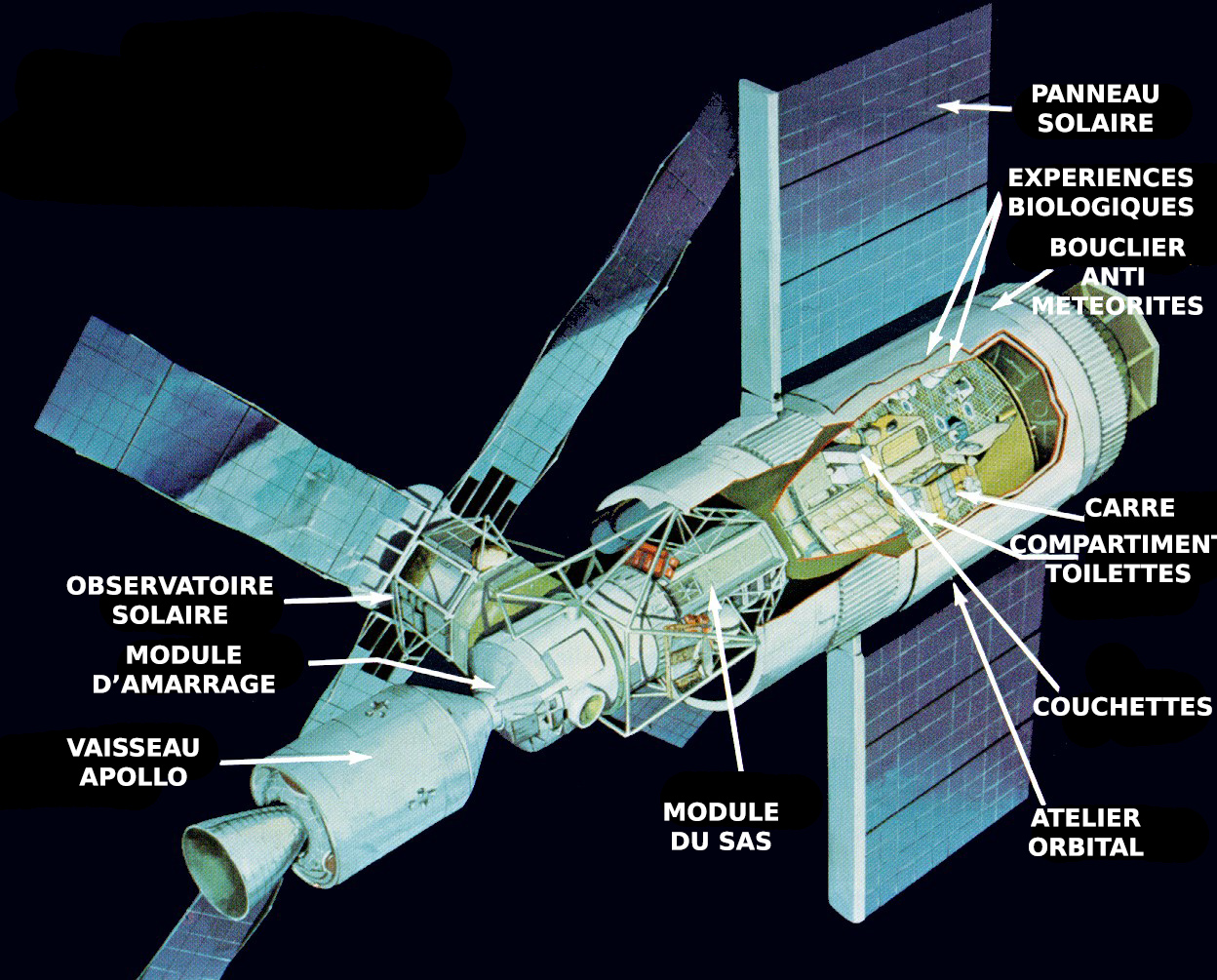 Skylab space station diagram.(french labels)